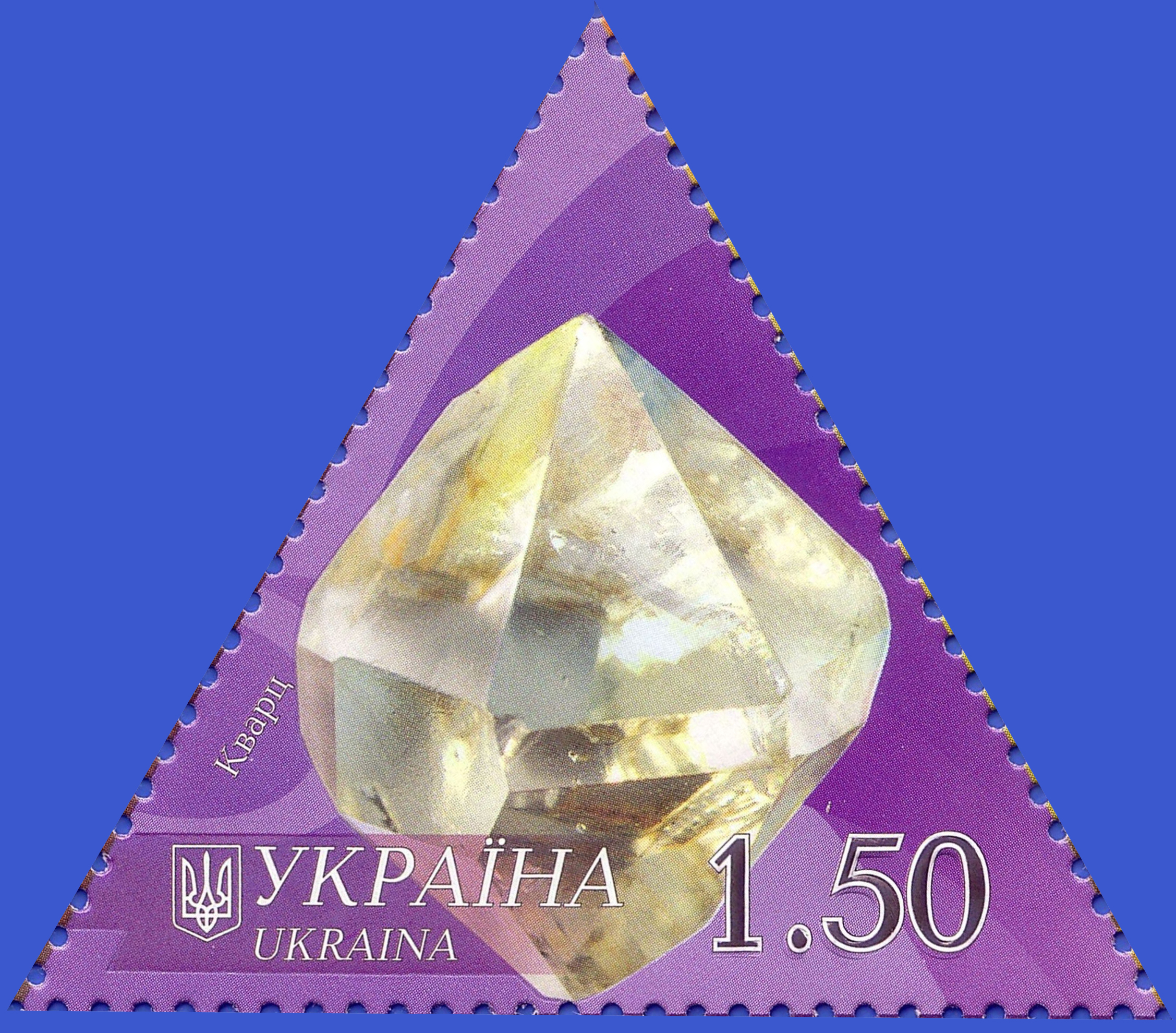 Triangular stamp of Ukraine from the series "Minerals". Face 1 c. 50 kopecks. 2009. Quartz.